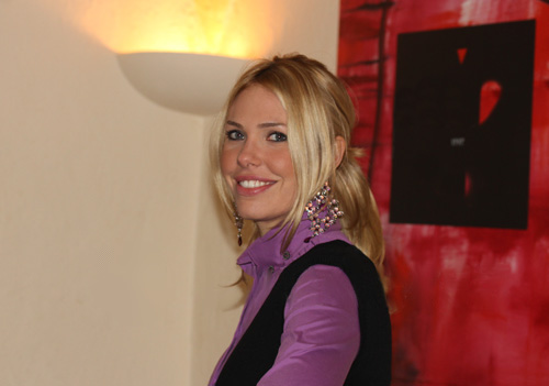 Italian showgirl Ilary Blasi